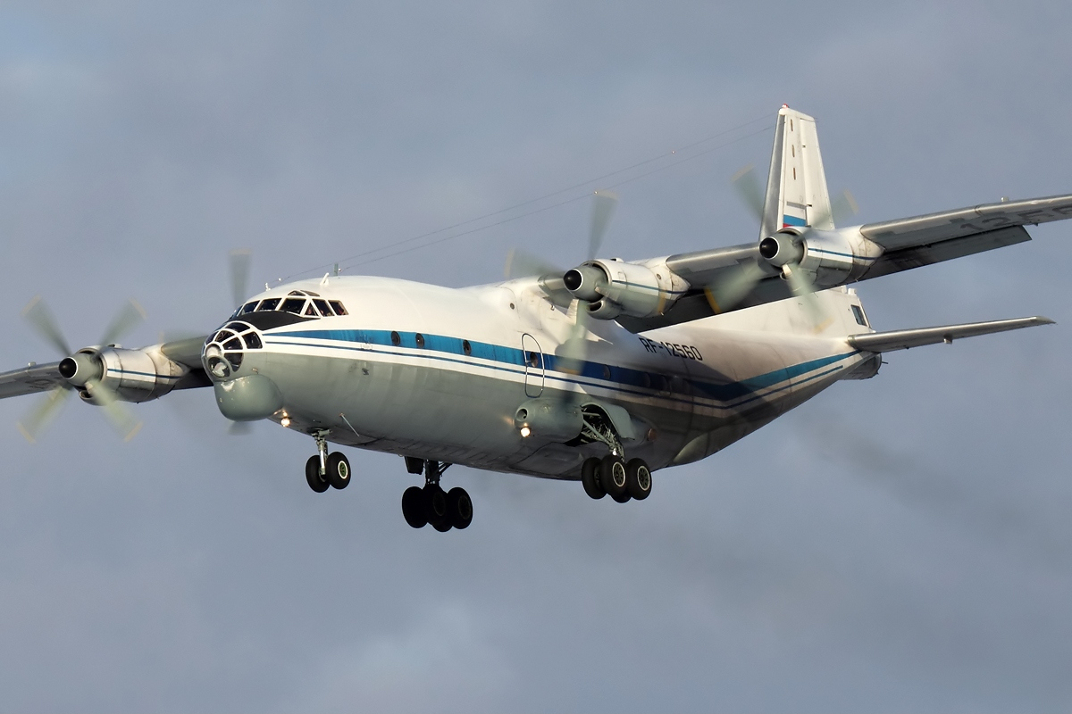 Russian Air Force Antonov An-12BK